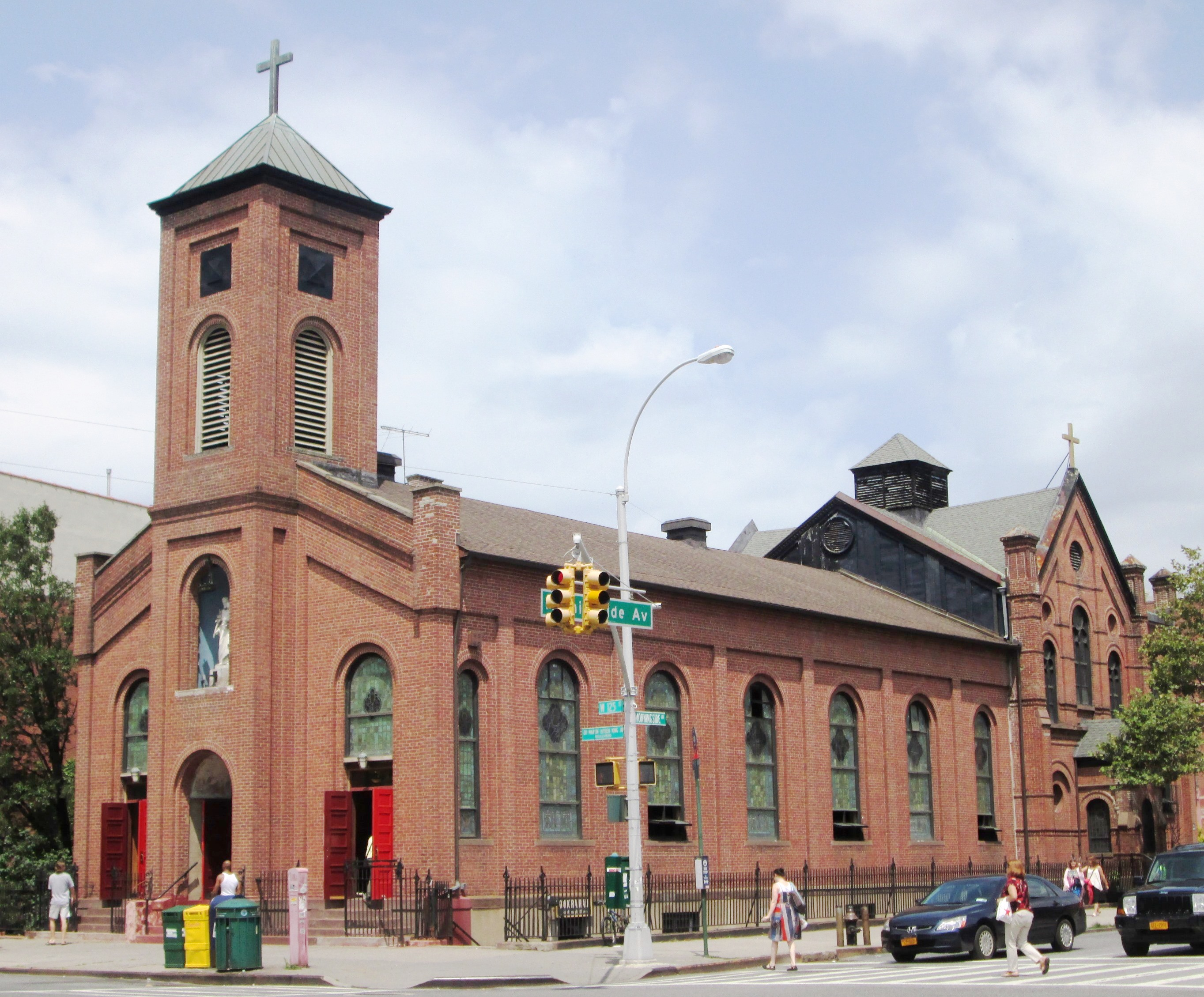 The Church of St. Joseph of the Holy Family is a Roman Catholic parish church of the Roman Catholic Archdiocese of New York, located at 401 West 125th Street at Morningside Avenue in the Harlem neighborhood of Manhattan, New York City. It is the oldest existing church in Harlem and above 44th Street in Manhattan. The Romanesque Revival red brick church was built and dedicated in 1860. It was enlarged in 1871 and altered in 1889 by the Herter Brothers. (Source: From Abysinnian to Zion (2004))